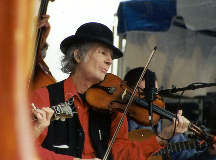 John Hartford performing at Merlefest, April 2000, Wilkes County Community College, North Carolina. Photo by Forrest L. Smith, III.